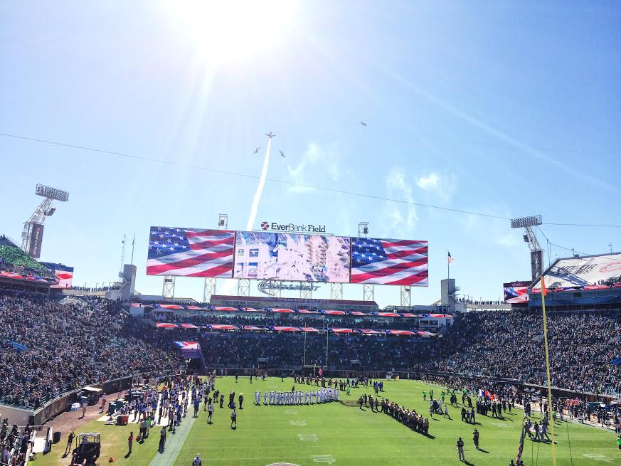 American anthem before a Jaguars game